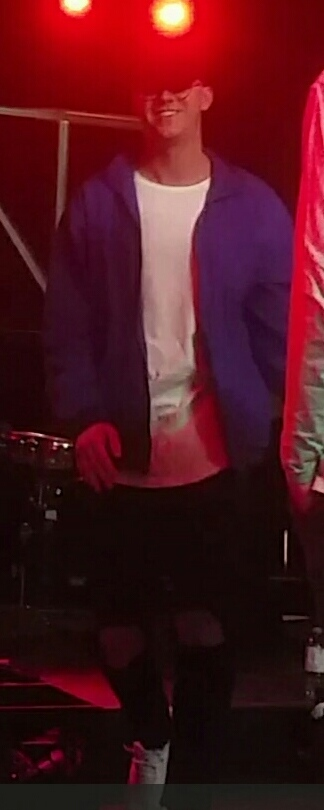 Virginia To Vegas photographed in Montréal, Quebec, Canada inside the Belmont .